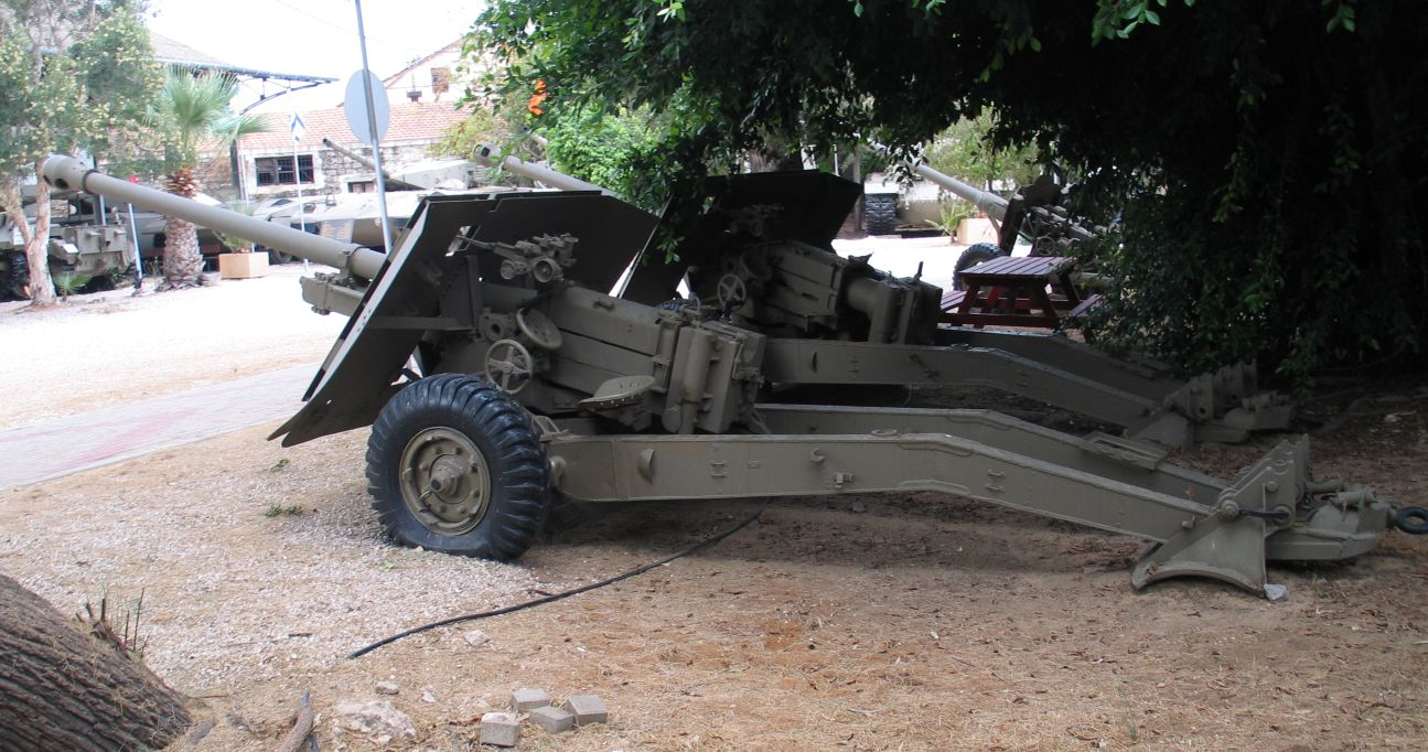 Description: British Ordnance QF 17 pounder anti-tank cannon -n Batey ha-Osef Museum, Tel Aviv, Israel. 2005. Source: Photo by me, User:Bukvoed.